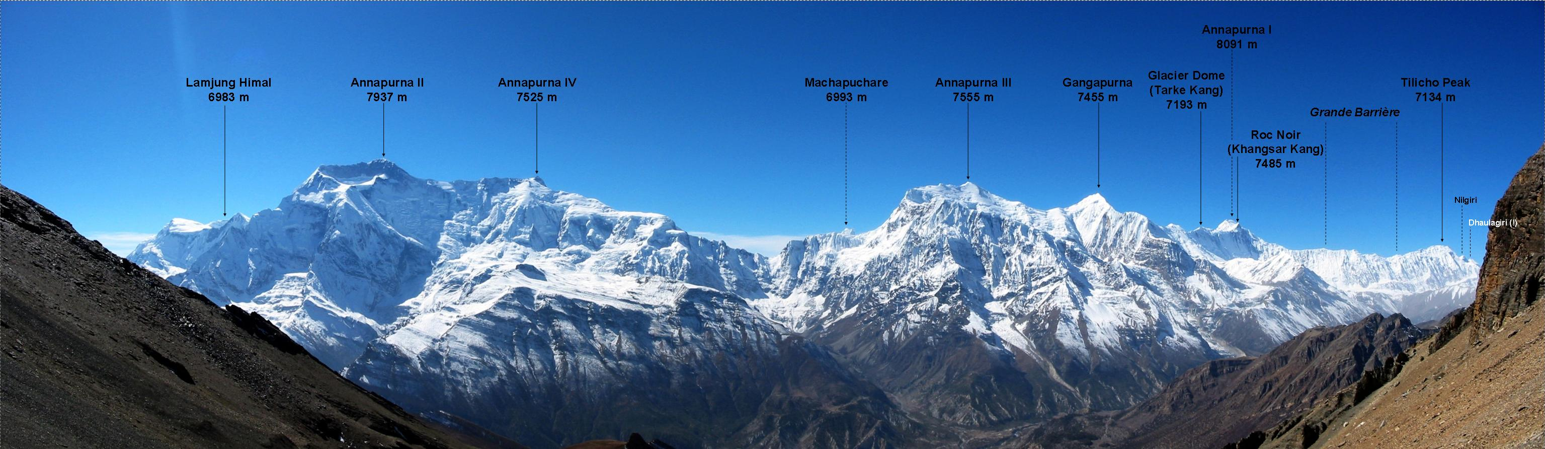 Northern side of the whole Annapurna Himal from Kang La (5322)- from left to right: Annapurna II, IV, *col*, Annapurna III, Gangapurna, Roc Noir, Annapurna I, Grande Barriére, Tilicho Peak